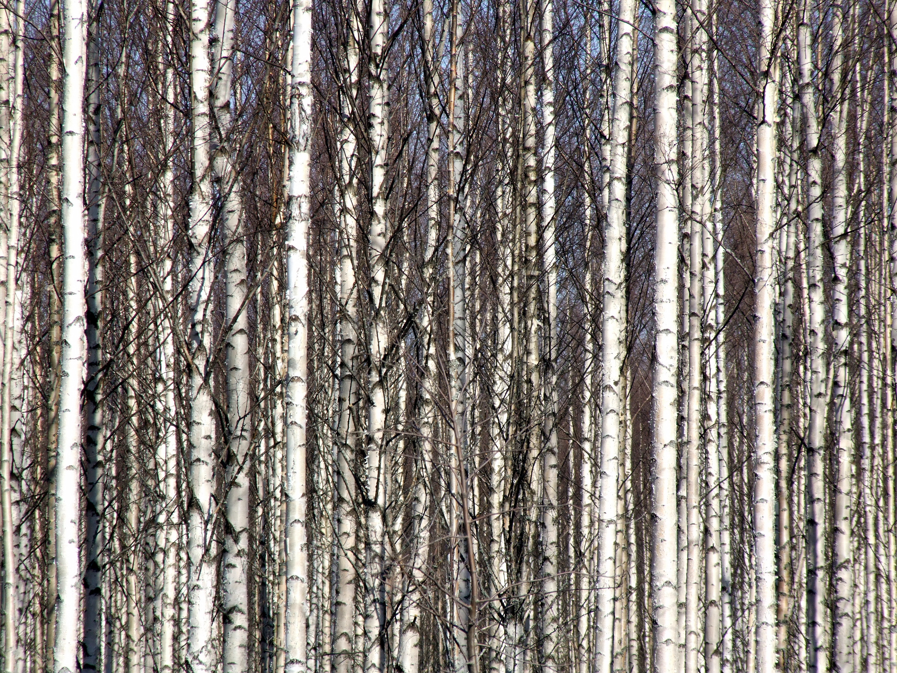 Birch forest in Pateniemi, Oulu.